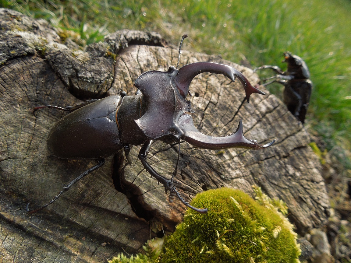 86 mm